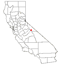 Mammoth Lakes, Mono County, California.